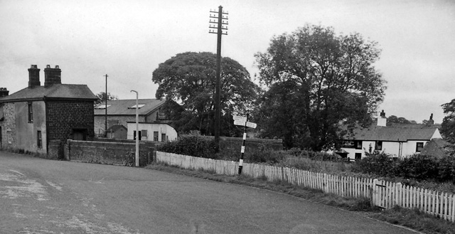 Bay Horse Station (remains). Near to Forton, Lancashire, Great Britain. View southward, towards Preston etc.; West Coast Main Line (Preston - Lancaster section). Station closed to passengers 13/6/60, open for Goods until 18/5/64.